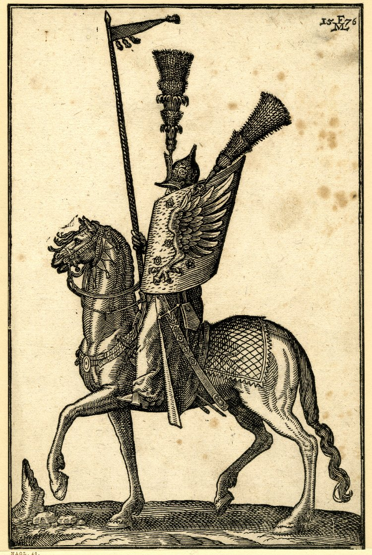 Ottoman Soldiers from contemporary European Illustrations by Melchior Lorck, 1570-83